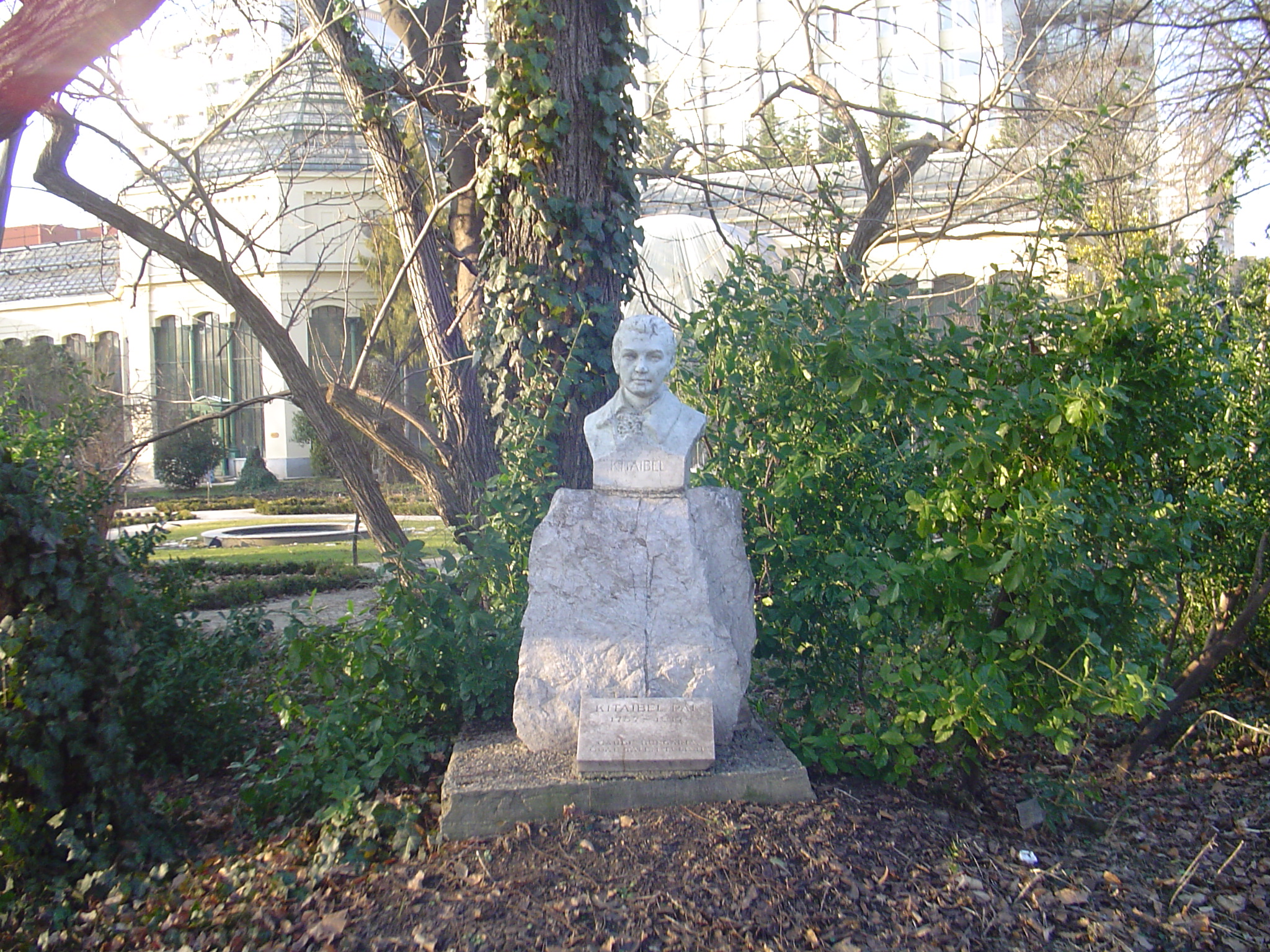 Memorial of Kitaibel Pál Hungarian botanist and chemist from Füvészkert (Botanic garden of Budapest)